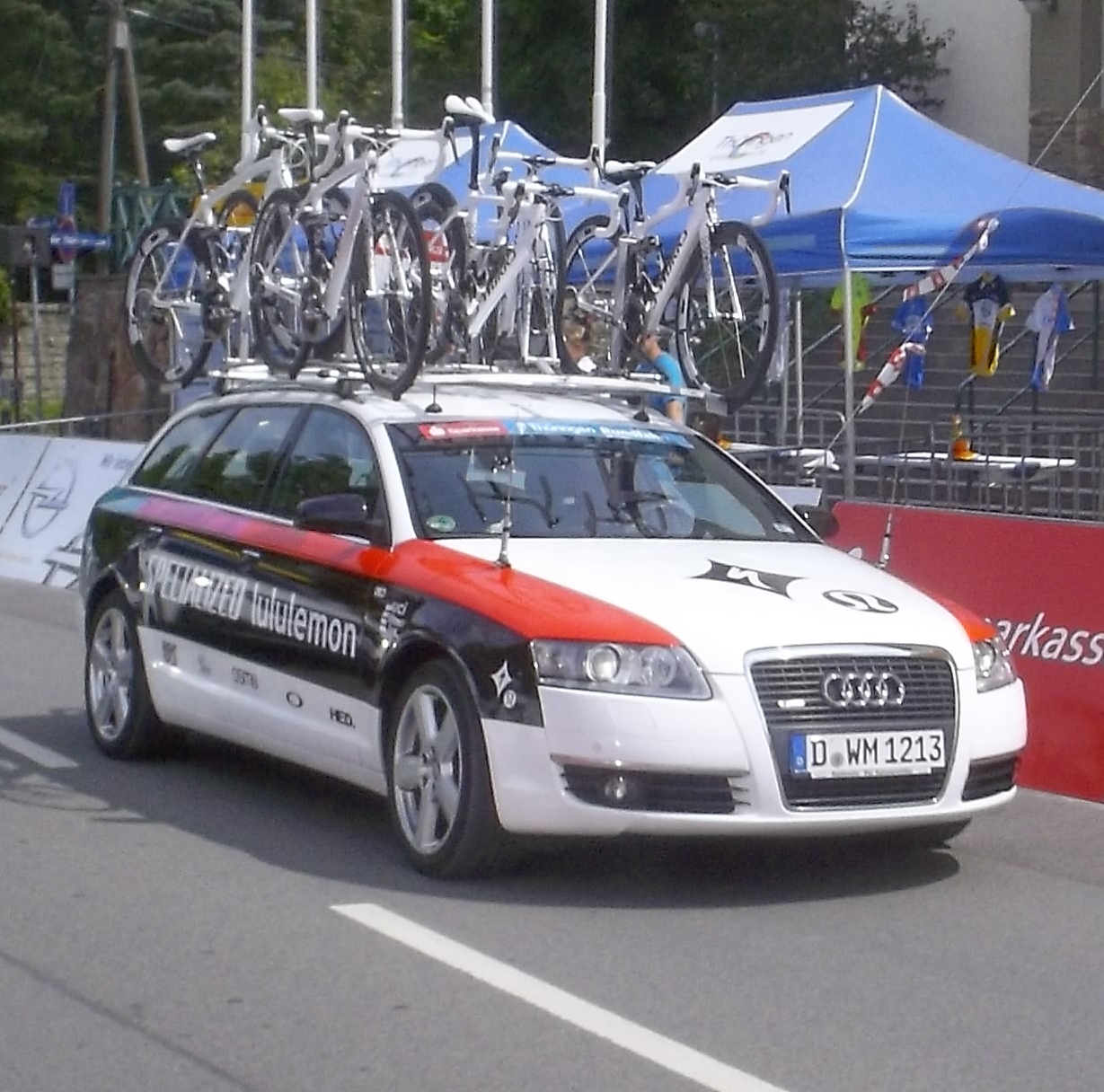 Specialized Lululemon car at Thuringen Rundfahrt 2014 during stage 1